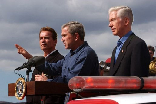 Transferred from en.wikipedia to Commons by Maksim. The original description page was here. All following user names refer to en.wikipedia. California's Republican Governor-elect Arnold Schwarzenegger (left) and outgoing Democratic Governor Gray Davis (right) listen as Republican Former U.S. President George W. Bush (center) speaks to firefighters on November 4, 2003 in El Cajon, California.